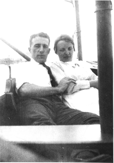 Citation: H. S. Bender Papers. Biography Project Photographs. HM4-083. Box 2 Folder 1 Photo 51. Mennonite Church USA Archives - Goshen. Goshen, Indiana.